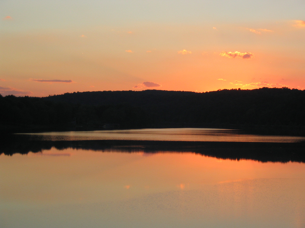 Just another boring sunset picture. Taken at Little Buffalo State Park, Newport, PA, USA.